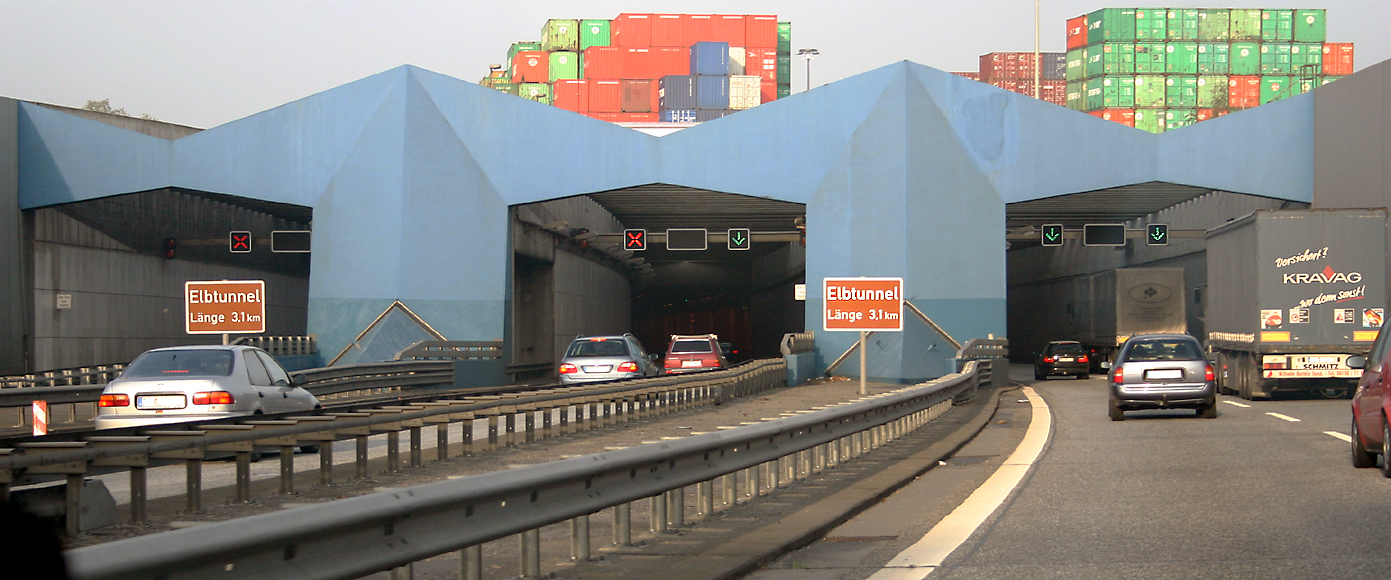 The autobahn A7: The southern entrance to the New Elbe Tunnel, Hamburg, Germany.